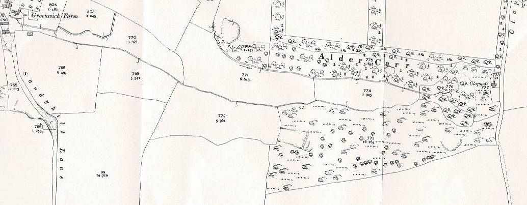 Map featuring road, woods and heathland